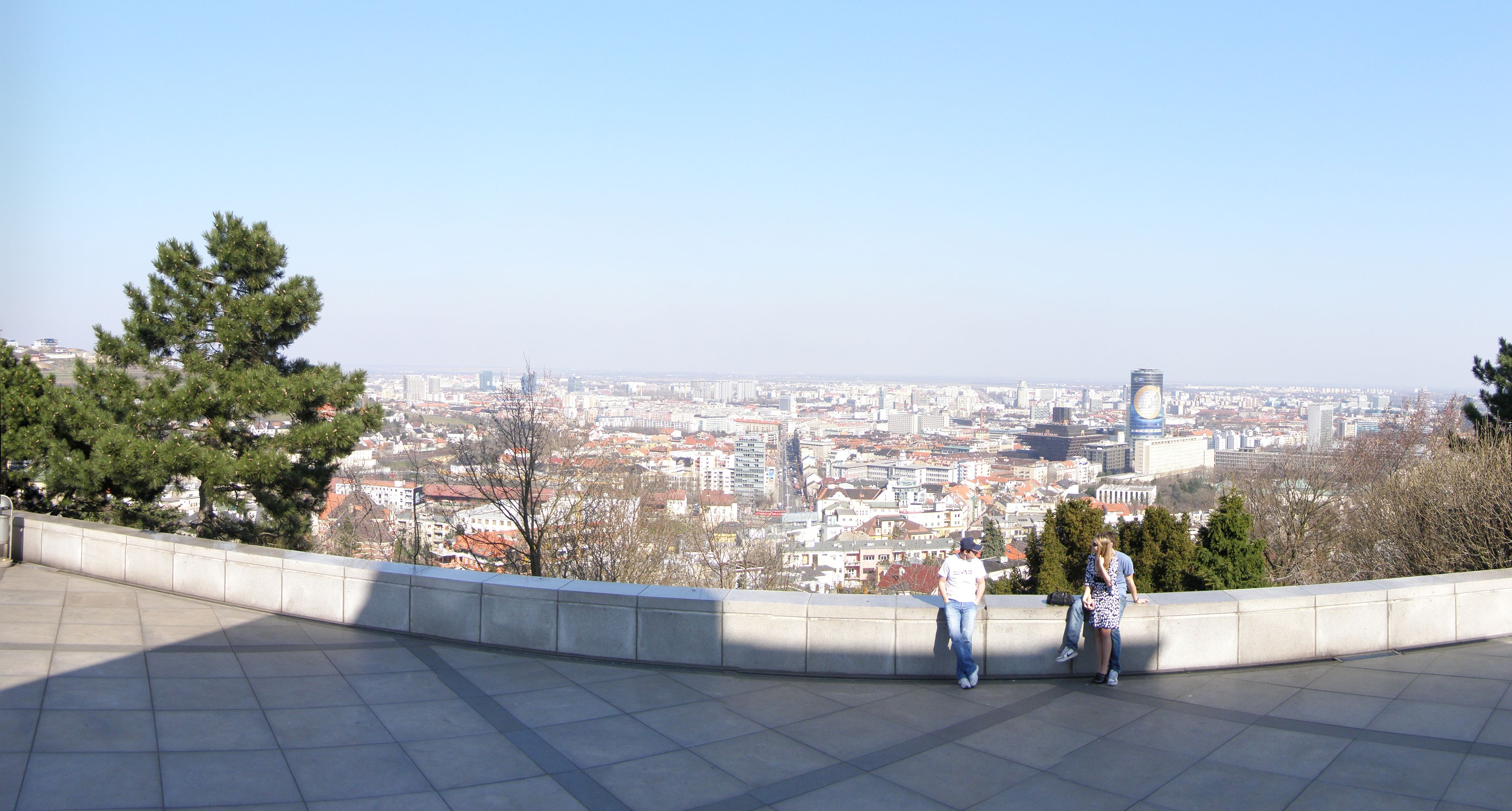 panorama picture from Slavin Memorial in Bratislava